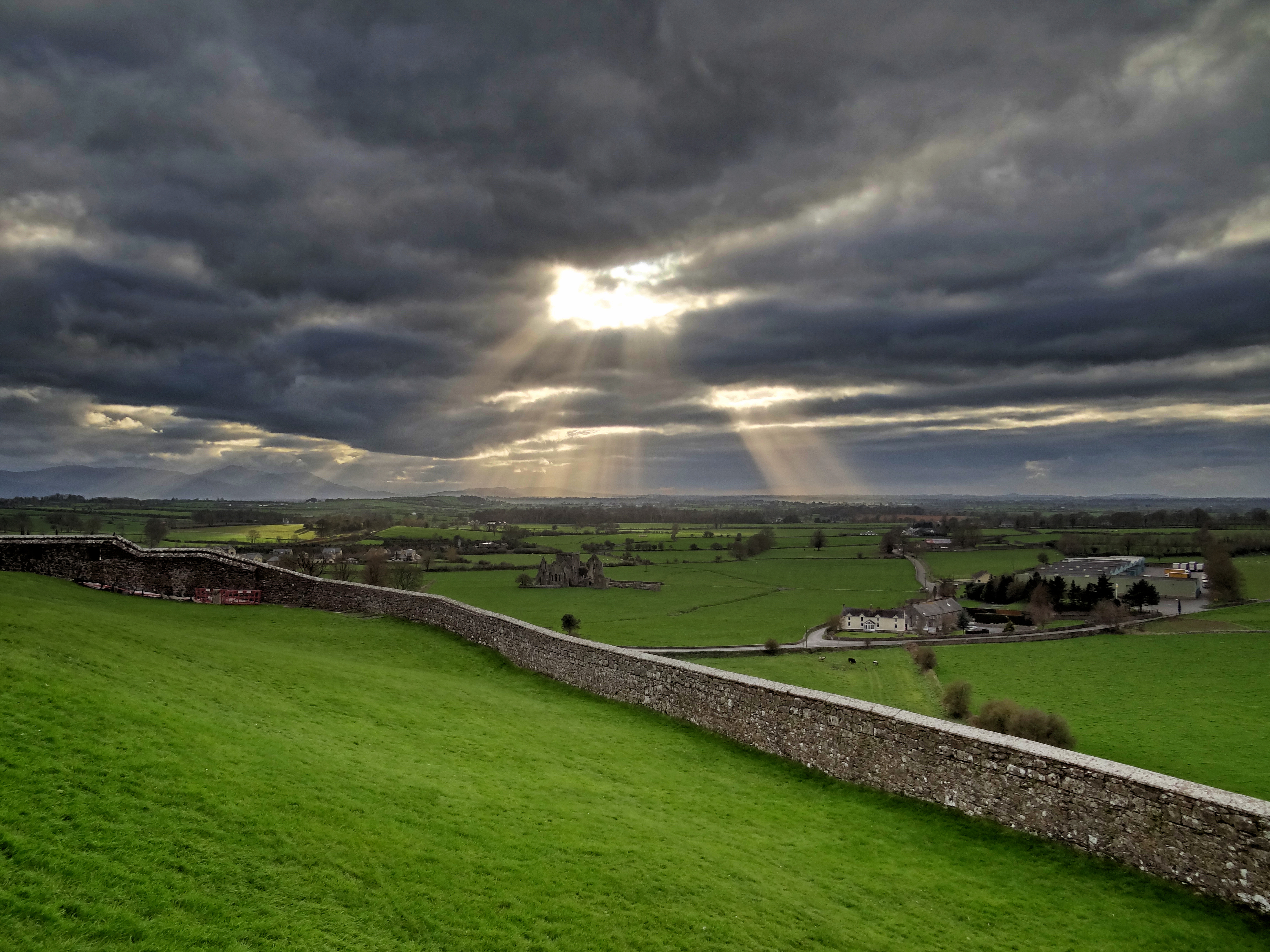 The Hore Abbey ruins as seen from the Rock of Cashel on a hill to the east.